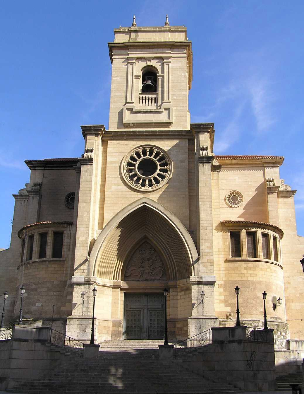 Main facade of Saint John's Cathedral in Albacete (Spain)